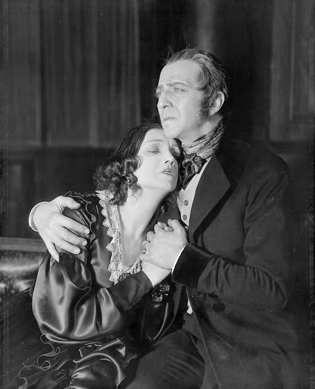 Promotional photograph of Katharine Cornell and Charles Waldron in the Broadway production of The Barretts of Wimpole Street Caption reads as follows: Miss Katherine [sic] Cornell as Elizabeth Barrett and Mr. Charles Waldron as the stern, strange, uncompromising father, in the grim scene which precedes Elizabeth's dash for freedom in marriage to Robert Browning